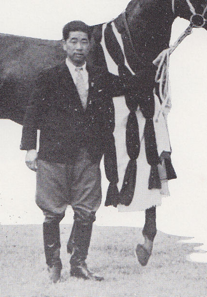 japanese horse trainer Yoshiraro MATSUDA